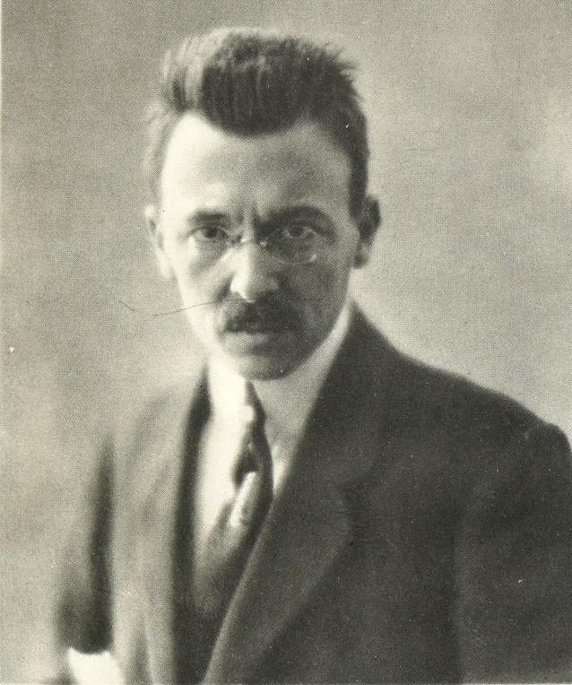 Portrait of the Italian composer ldebrando Pizzetti